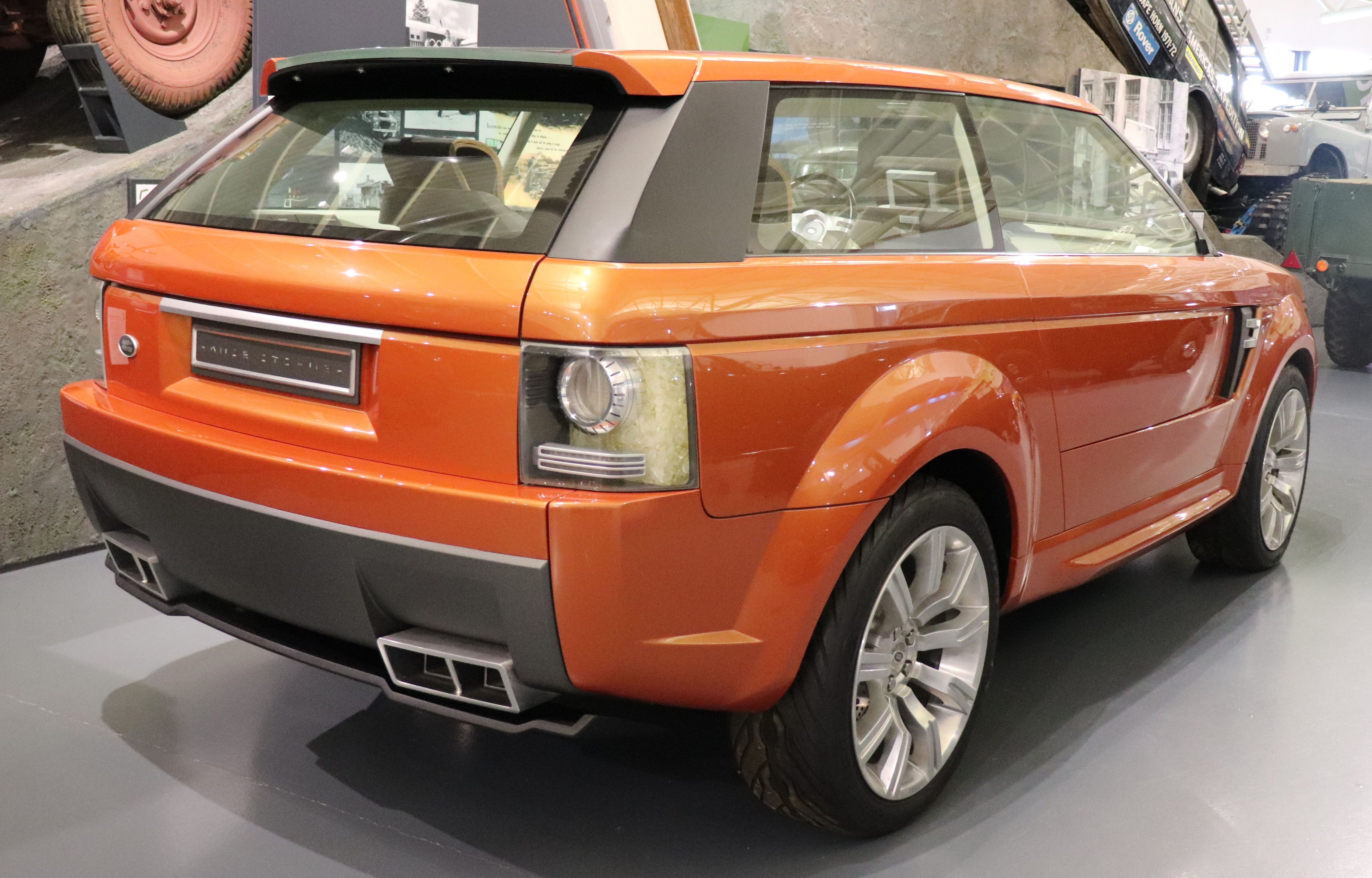 2004 Land Rover Range Stormer Concept 4.2 Rear Taken at the British Motor Museum, Gaydon